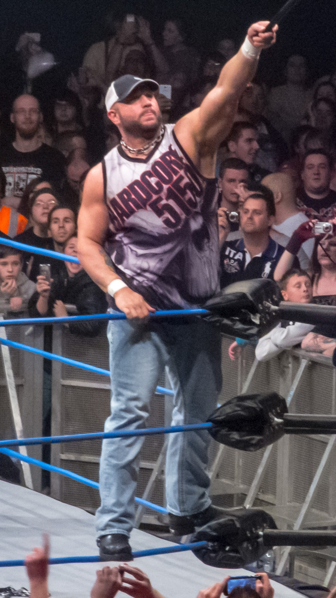 Bully Ray at the Impact! TV Tapings in Wembley, England on January 26, 2013.